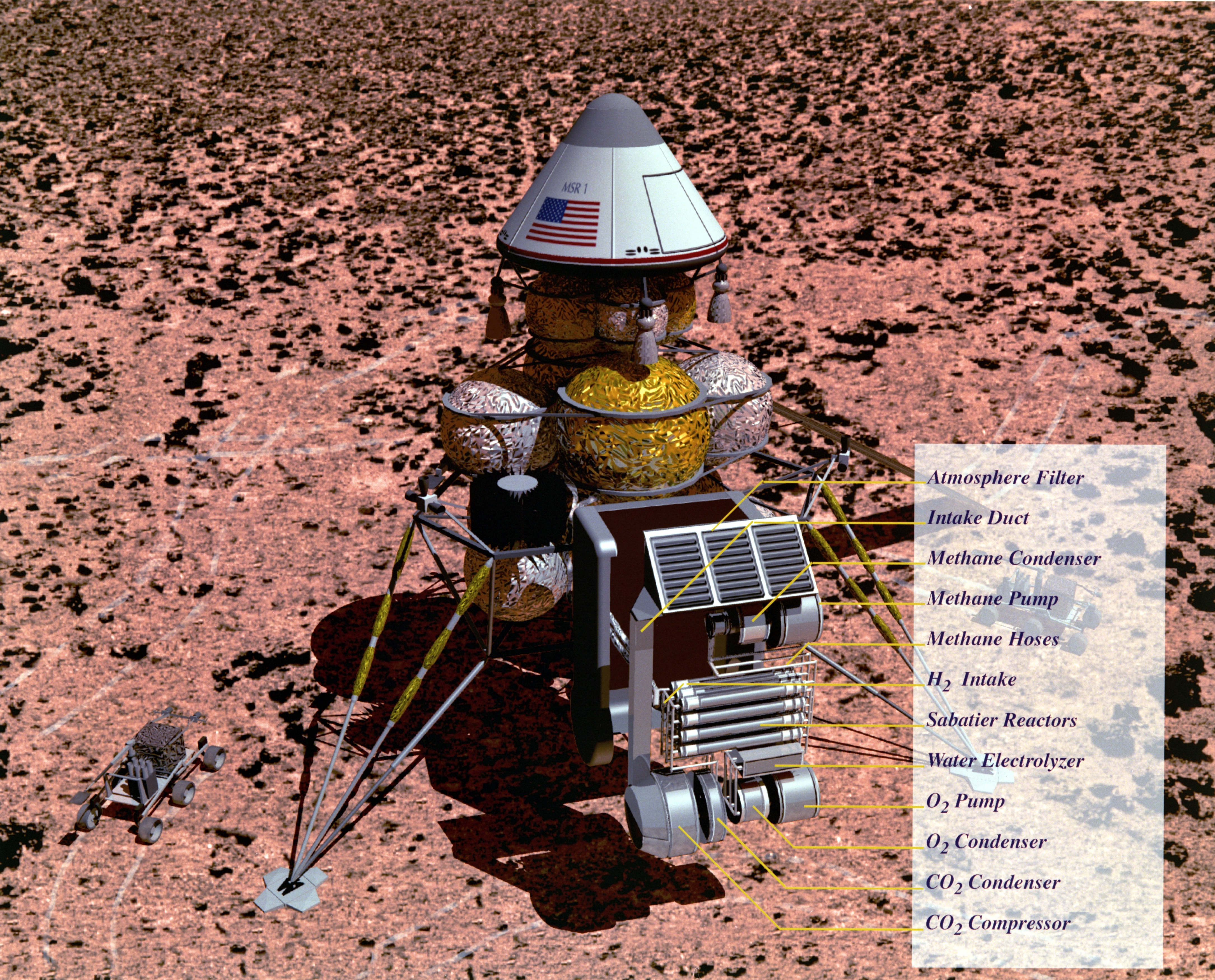 The Mars In-Situ Resource Utilization (ISRU) Sample Return (MISR; pronounced "miser") mission will send a small, robotic lander to Mars in order to collect Martian rock, soil and atmospheric samples, and then return those samples to Earth. The key to a low-cost mission is to send as small a mass as possible to Mars. Consequently, the two-meter-tall MISR lander will set down on the Mars surface with empty propellant tanks for its return trip home. Utilizing ISRU technology, a propellant production facility will take in carbon dioxide from the Martian atmosphere and manufacture the needed Mars-ascent and Earth-return propellants. During the approximate 300 day stay required to manufacture the propellants, two small micro-rovers - each the size of a big shoe box - will be teleoperated from Earth to collect the rock and soil samples. By the time the appropriate Earth-Mars planetary alignment occurs, the Martian samples will have been safely stowed in the return capsule and the propellant tanks will be fully fueled. The vehicle ascends off from Mars and begins its voyage to bring the Martian treasures back to Earth. Artist concept.